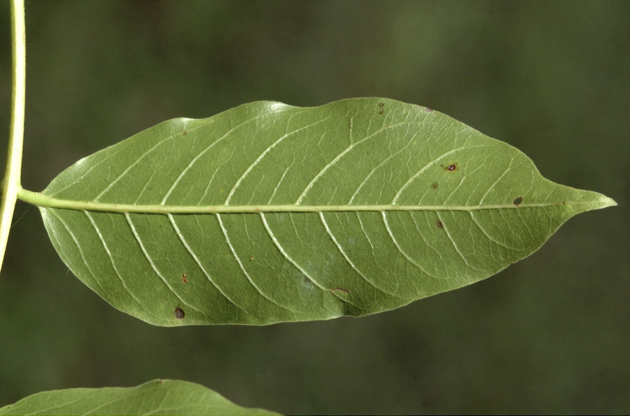 Acrocarpus fraxinifolius is one the tree of Western Ghats, India. This image shows... Attributions: B. R. Ramesh, N. Ayyappan, Pierre Grard, Juliana Prosperi, S. Aravajy, Jean Pierre Pascal, The Biotik Team, French Institute of Pondicherry. Contributors:Dr. N. Ayyappan, Biotik Team, French Institute of Pondicherry.